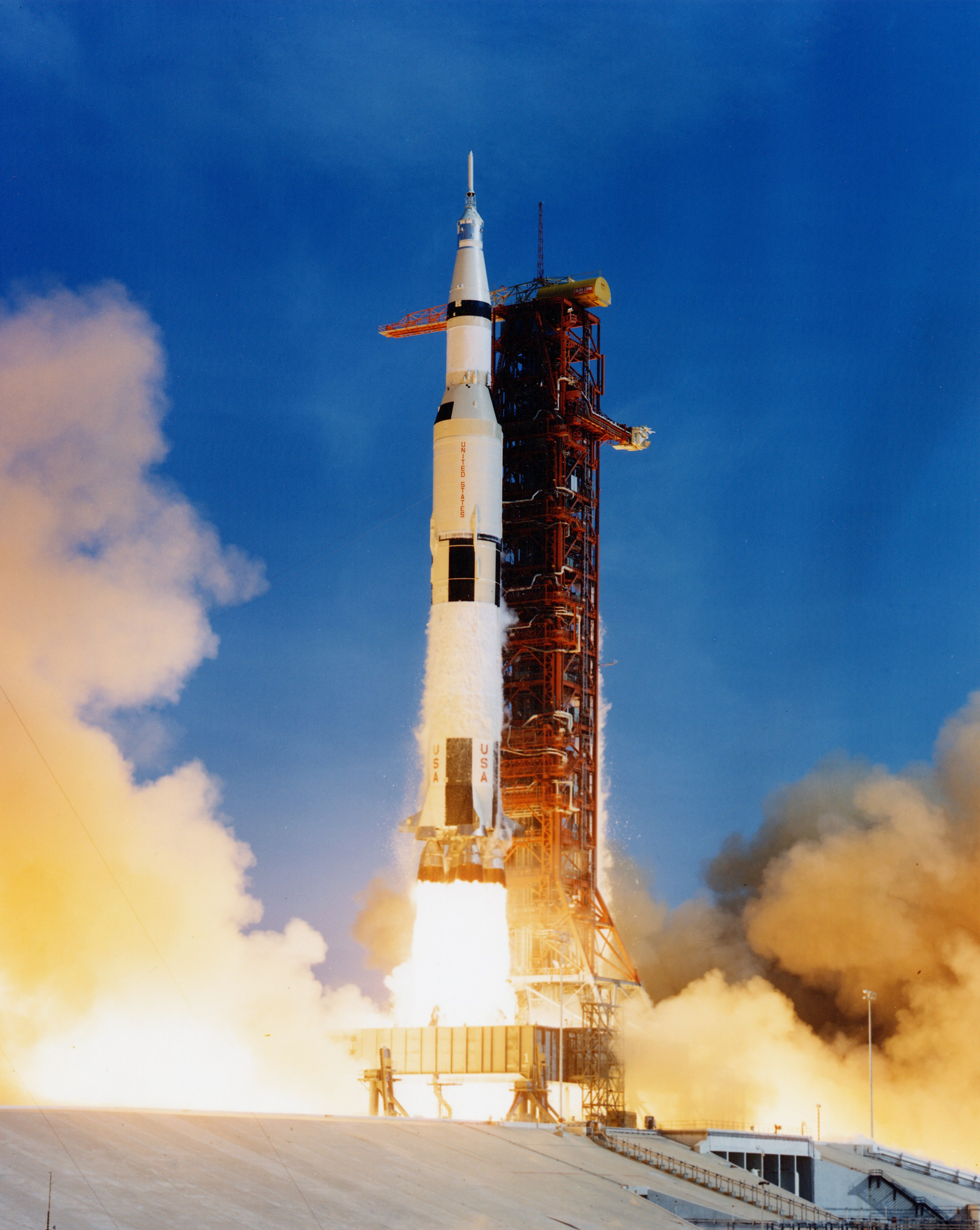 The Apollo 11 Saturn V space vehicle lifted off with Astronauts Neil A. Armstrong, Michael Collins and Edwin E. Aldrin Jr. at 9:32 a.m. EDT July 16, 1969, from Kennedy Space Center's Launch Complex 39A.